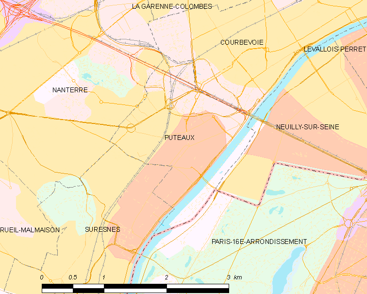 Map of French municipality Puteaux